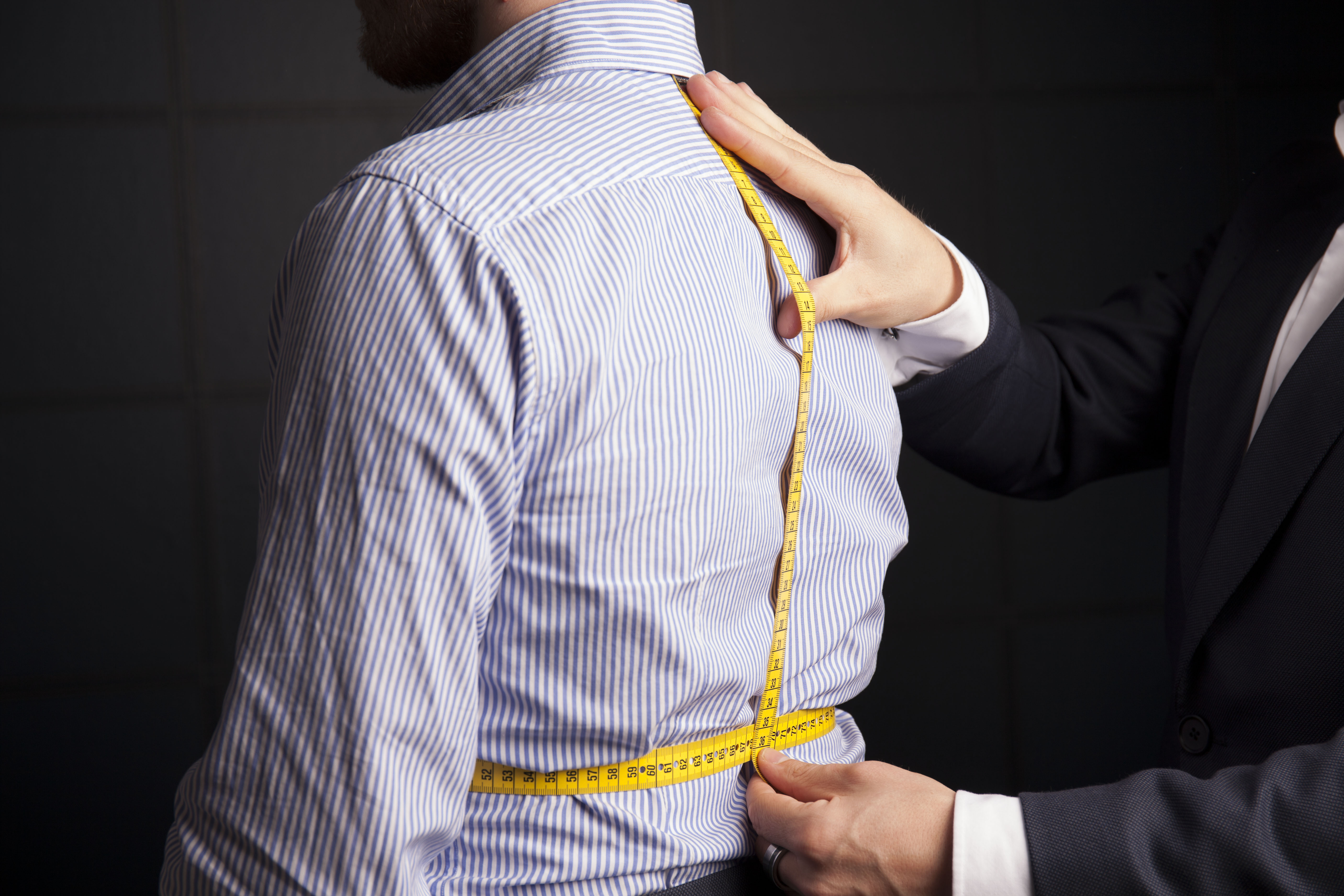 Bespoke Tailor Sebastian Hoofs is taking measurement for a men's suit